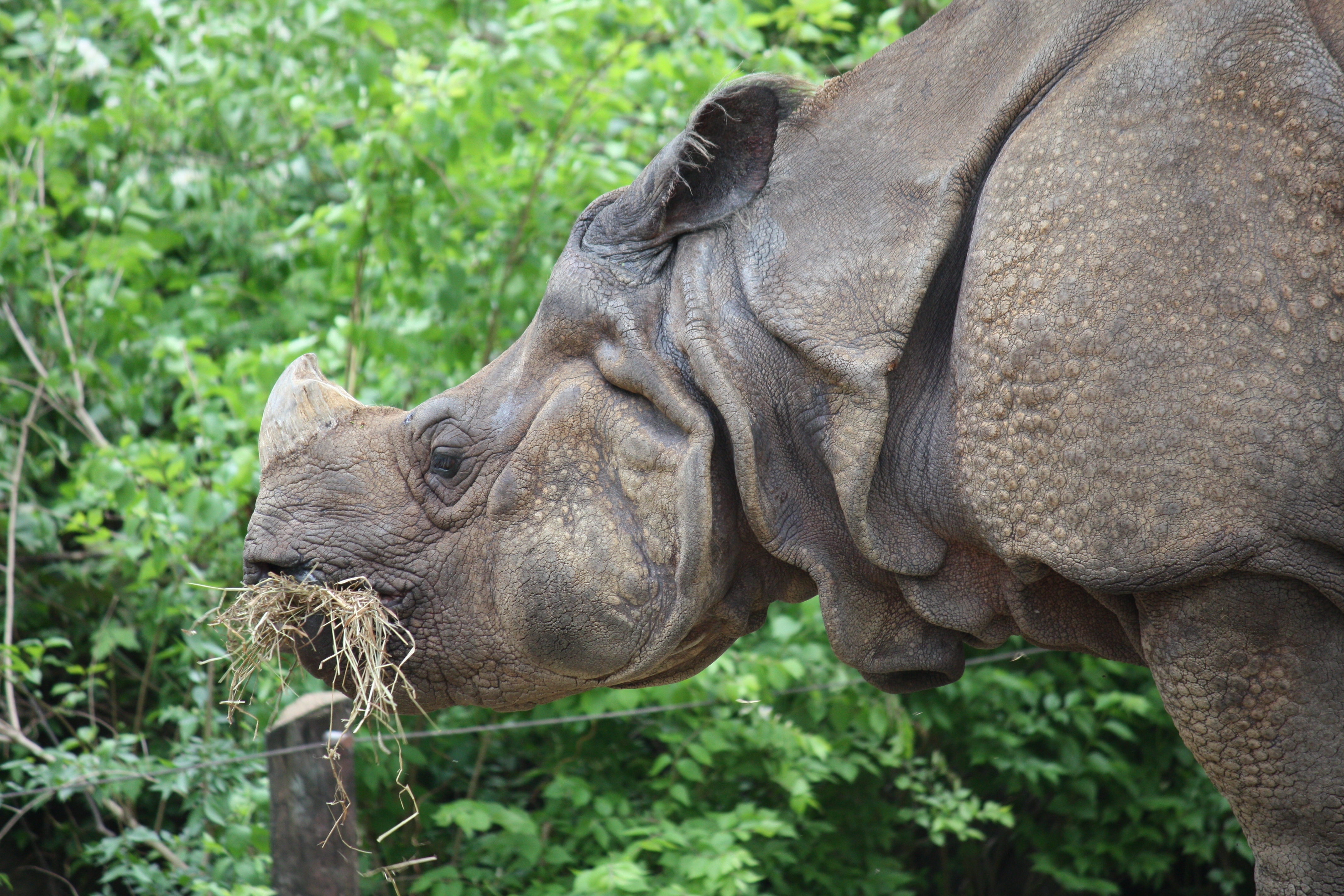 Indian Rhino Rhinoceros unicornis at Cincinnati Zoo